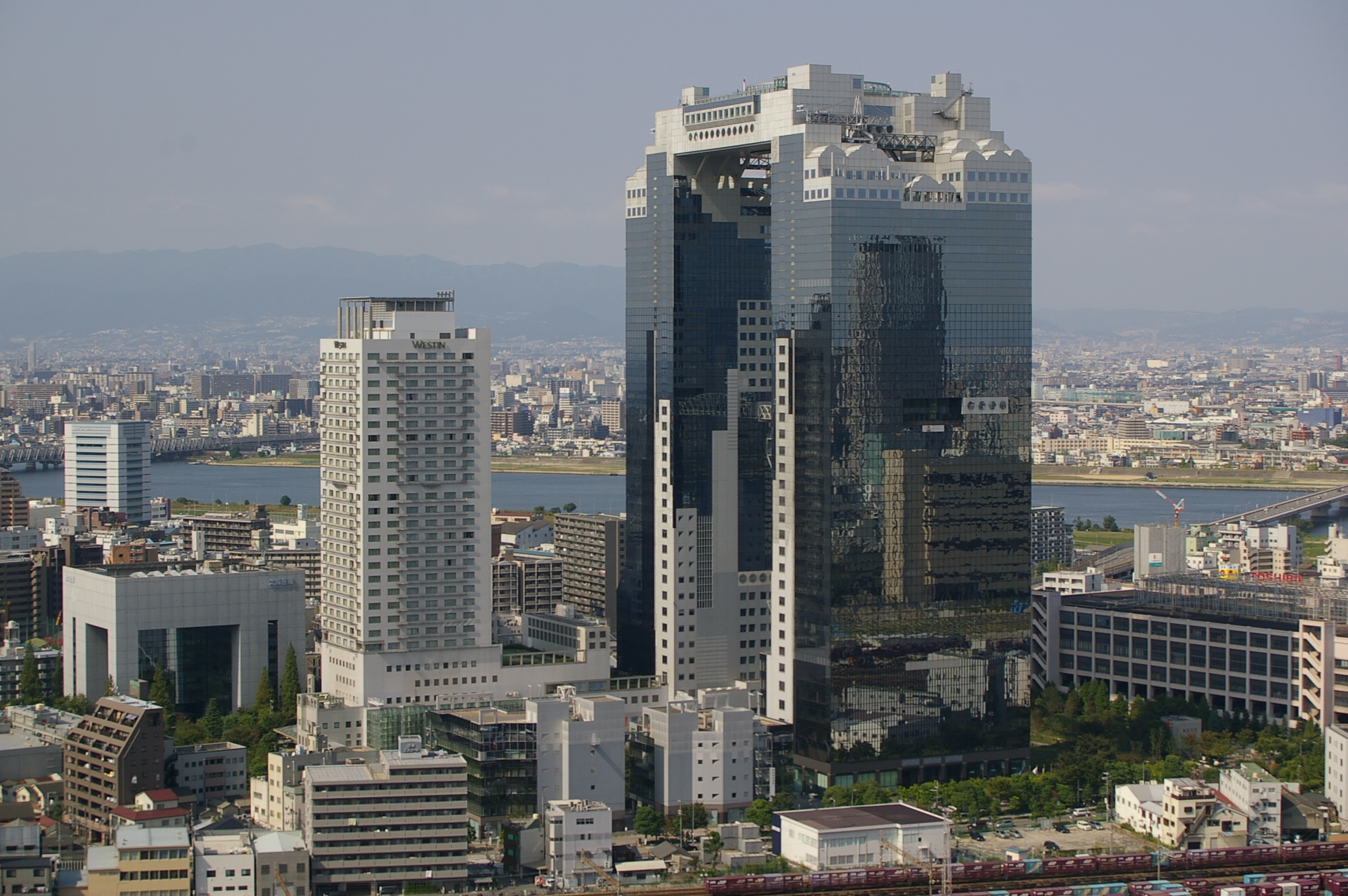 Photograph of Shin Umeda City in Kita-ku, Osaka, Osaka Prefecture, Japan.